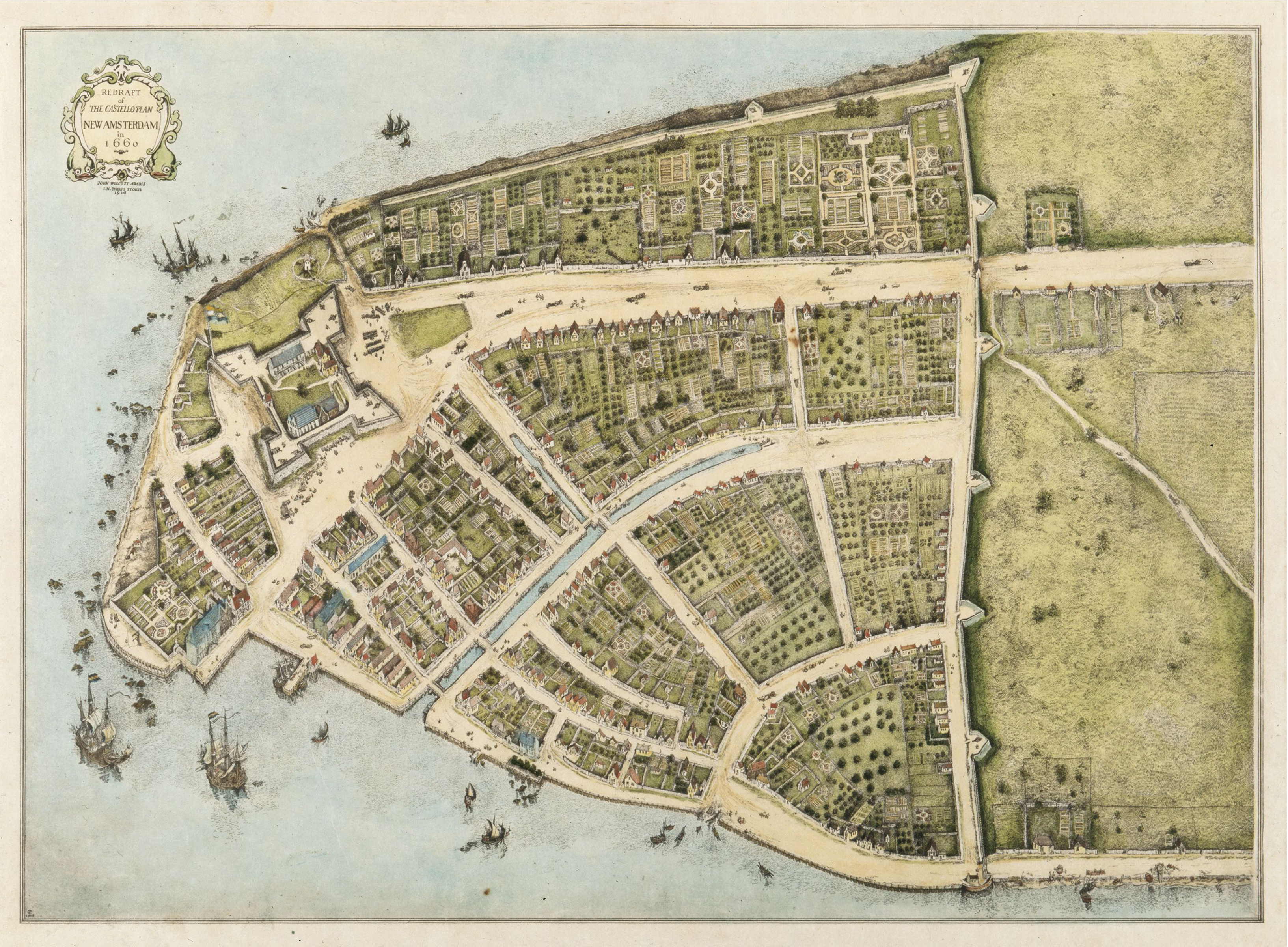 Redraft of the Castello Plan New Amsterdam in 1660. North is to the right. 31 x 40 cm Medium: printed map, color wash on paper